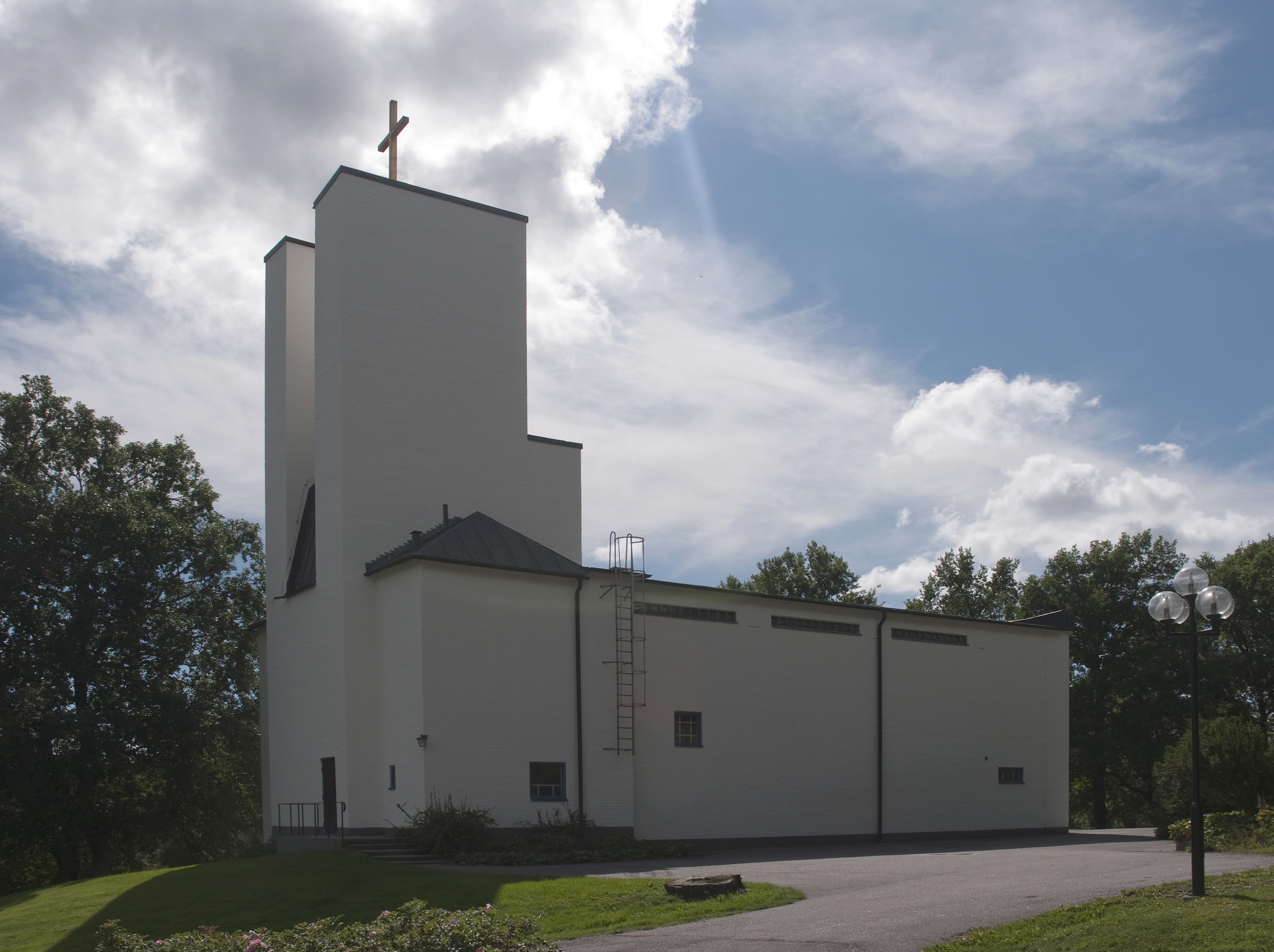 Kila church in the municipality of Nyköping.